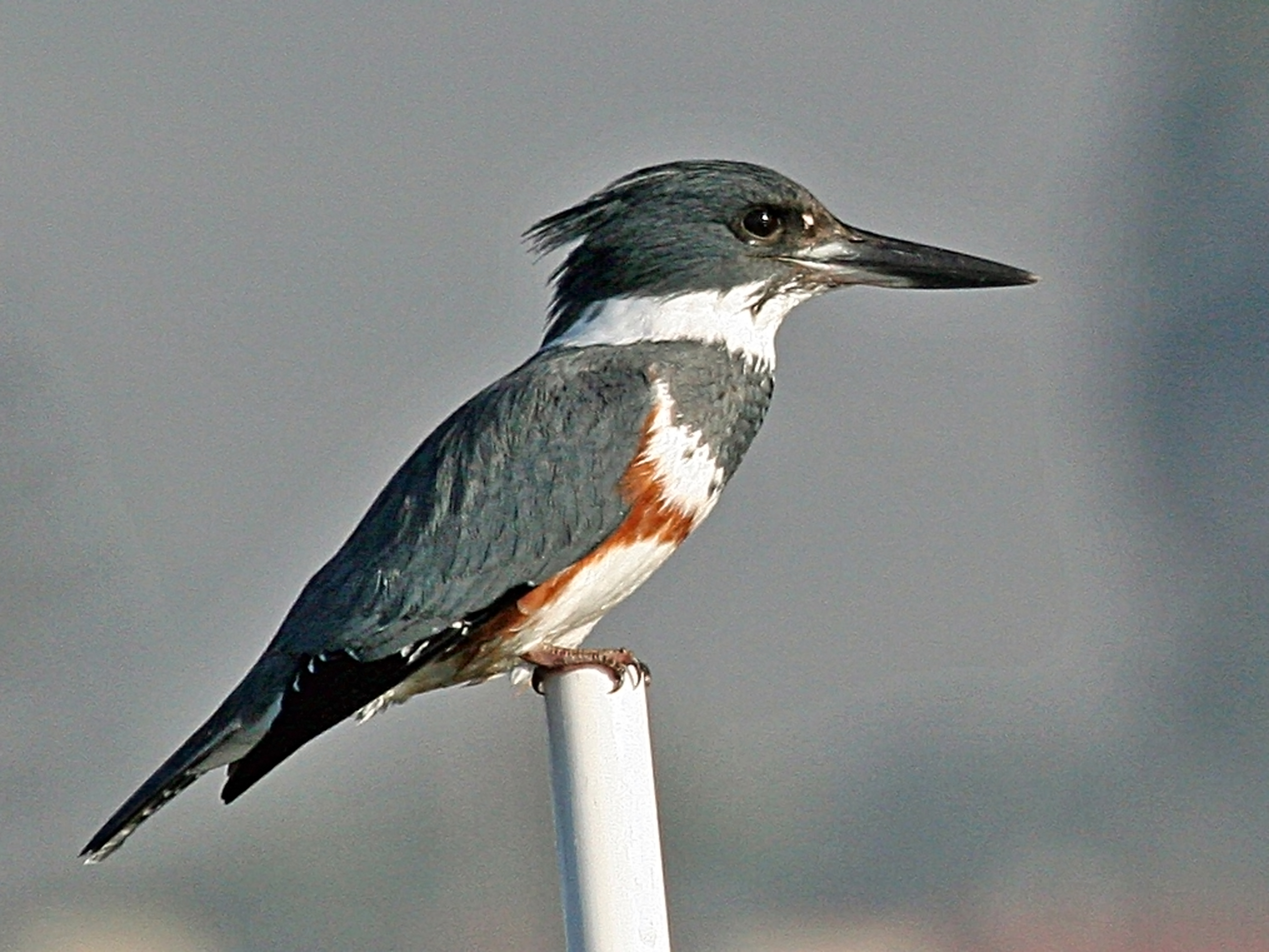 Female Belted Kingfisher Megaceryle alcyon, Morro Bay, California, USA.